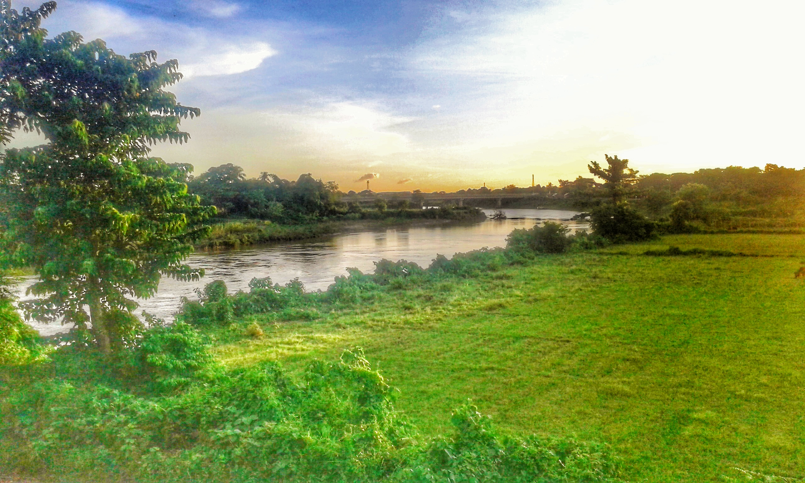 Gumti River,Comilla The Gumti River is a river of north-east India (Tripura state) and Bangladesh